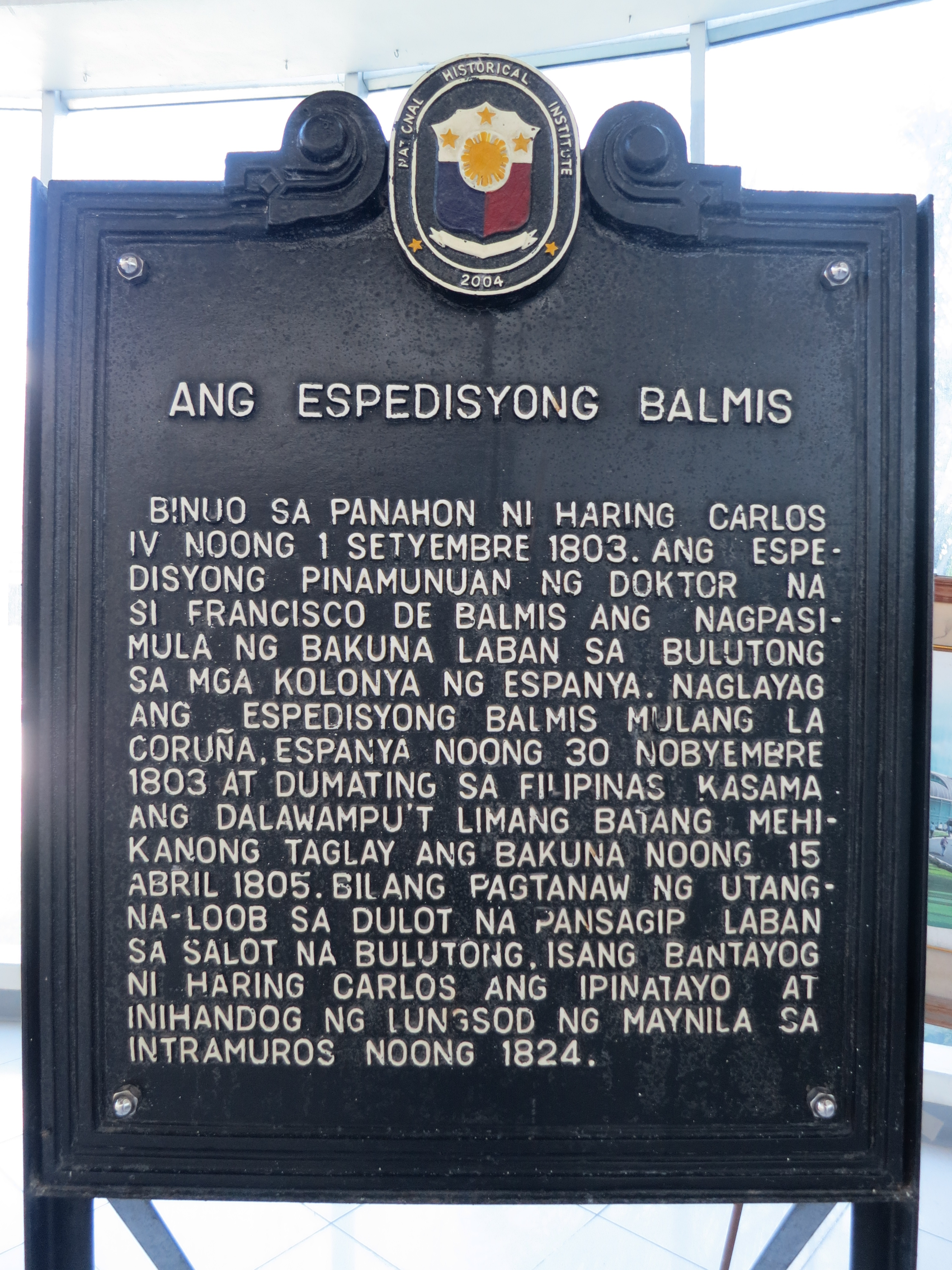 Historical marker installed by the National Historical Commission of the Philippines to commemorate the Balmis Expedition.